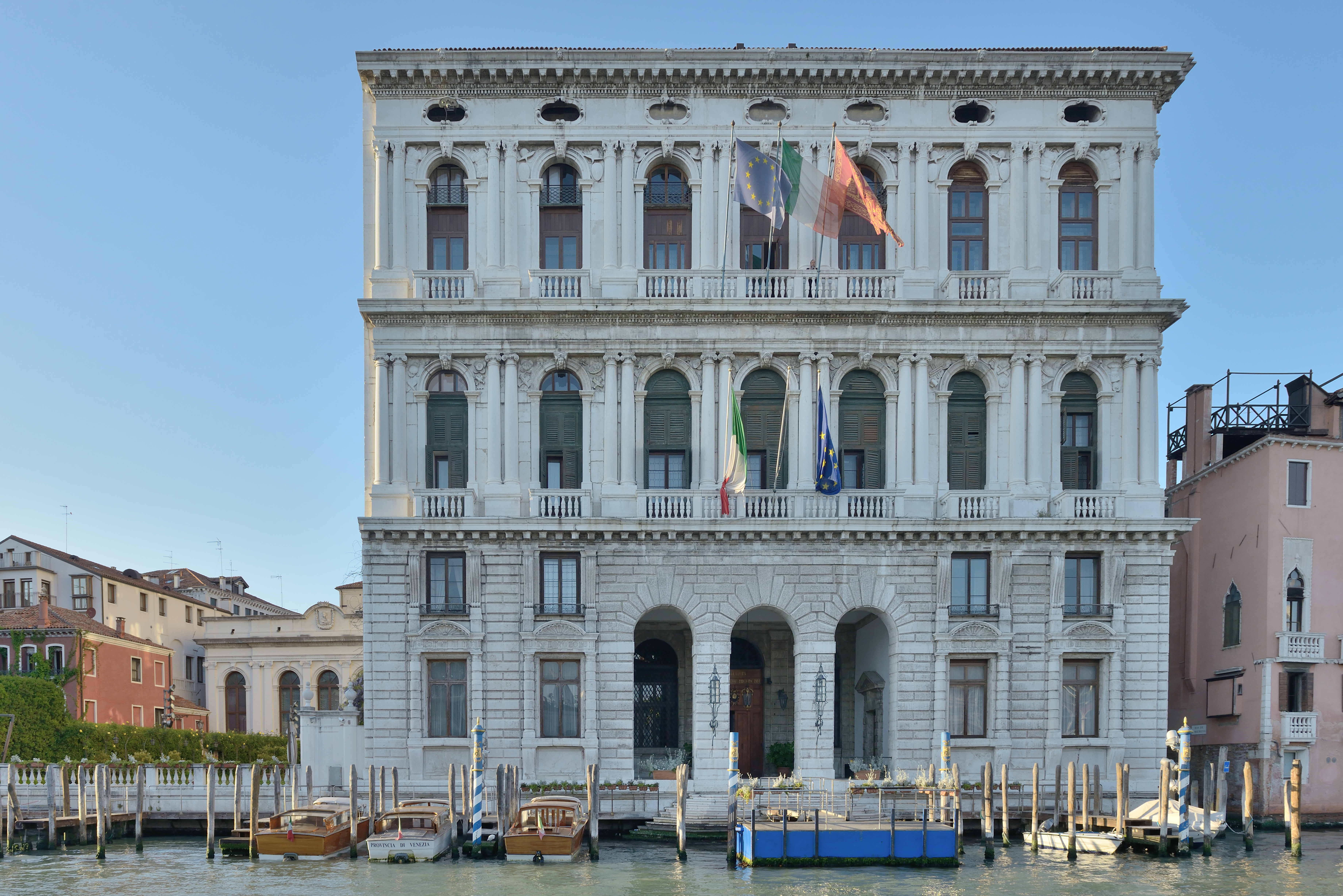 Palazzo Corner della Ca' Granda by architect Jacopo Sansovino in Venice. Facade on Grand Canal.